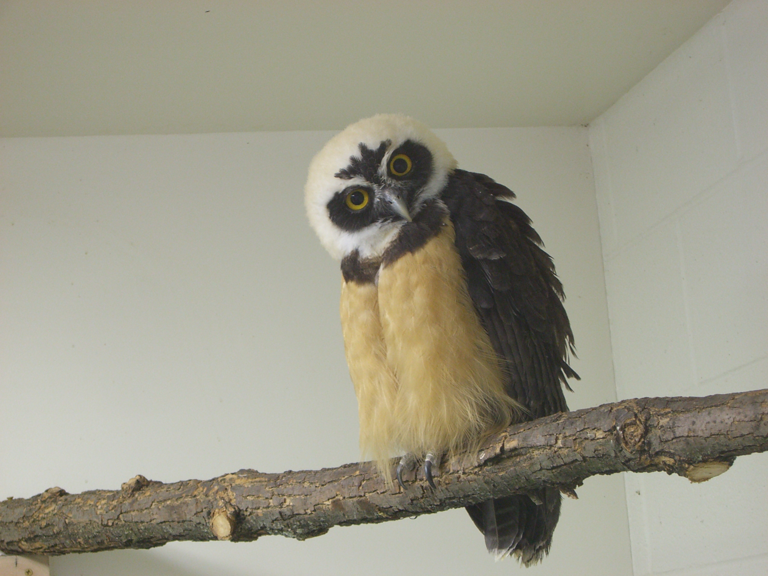 Franklin, a spectacle owl baby, stares intently at the camera. Taken at the National Aviary in Pittsburgh.